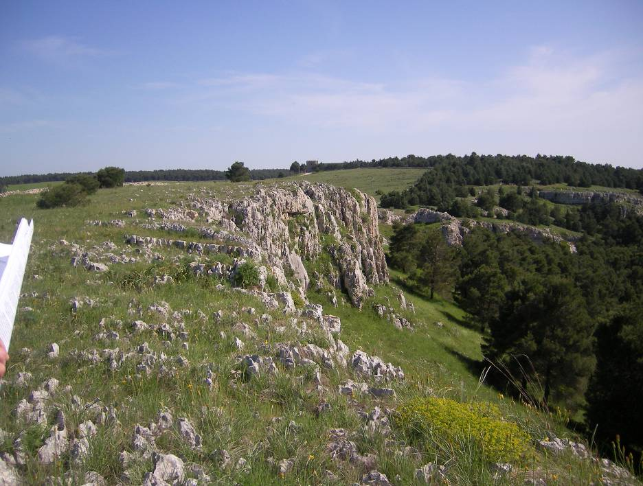 Pulicchio di Gravina (a doline located in the Murge plateau, Italy) - View 1